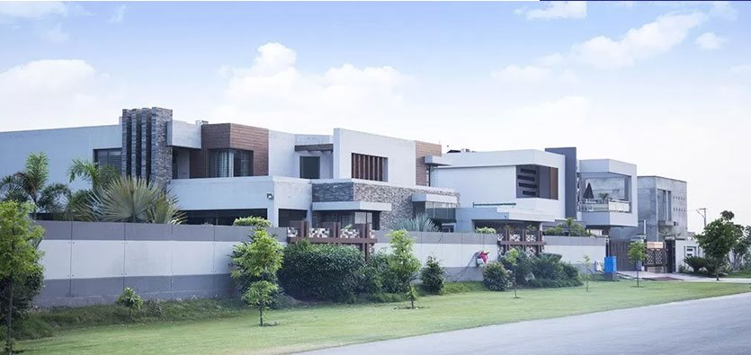 There are many Investment Opportunities in Pakistan but without any doubt, real estate investment considered to be amongst the top of them. The trend of real estate investment is increasing day by day. Whether you want to buy a plot for investment purpose or to build a house, real estate agents always prefer to buy a plot on a good location. As we also know a famous proverb location, location and location. If you are planning to buy a commercial or residential plot in upcoming days, you should visit at least once Sahara City. It is a very good option for you especially if you are planning to buy a property for an investment purpose. This society is located 4 km from Jamal chowk, 8 km from Sahiwal road, Pakpattan. Society Features: • 24/7 security • Wide carpeted roads • Gated Community • Luxurious community club • Underground electrification • University of Lahore's campus • Schools and colleges • Zoo • Jogging tracks • Parks • Mini golf • Sewerage disposal • Spacious mosque • Hospital Sahara City is another project of Konstruct Marketing near Pakpattan City and offers multiple plots to cater your constructional needs. Please don't be hesitant to contact us for any further inquiries. Our Contact Info: +92 42 37167444 | +92 42 37167455